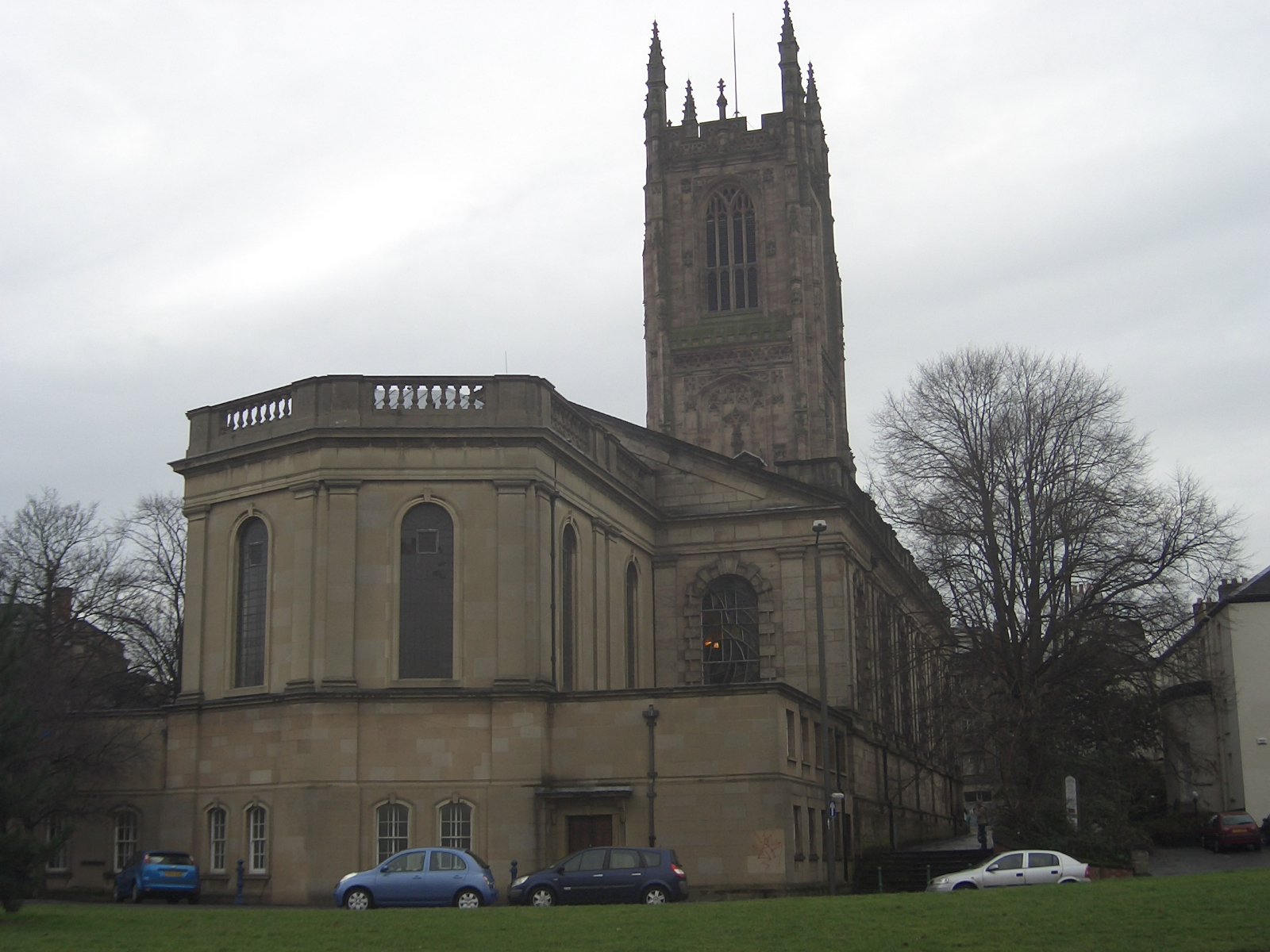 Derby Cathedral